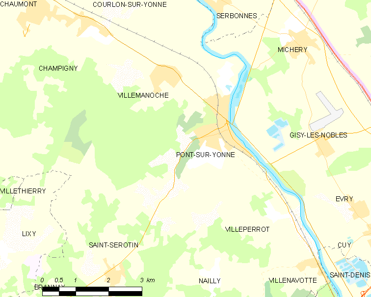 Map of French municipality Pont-sur-Yonne